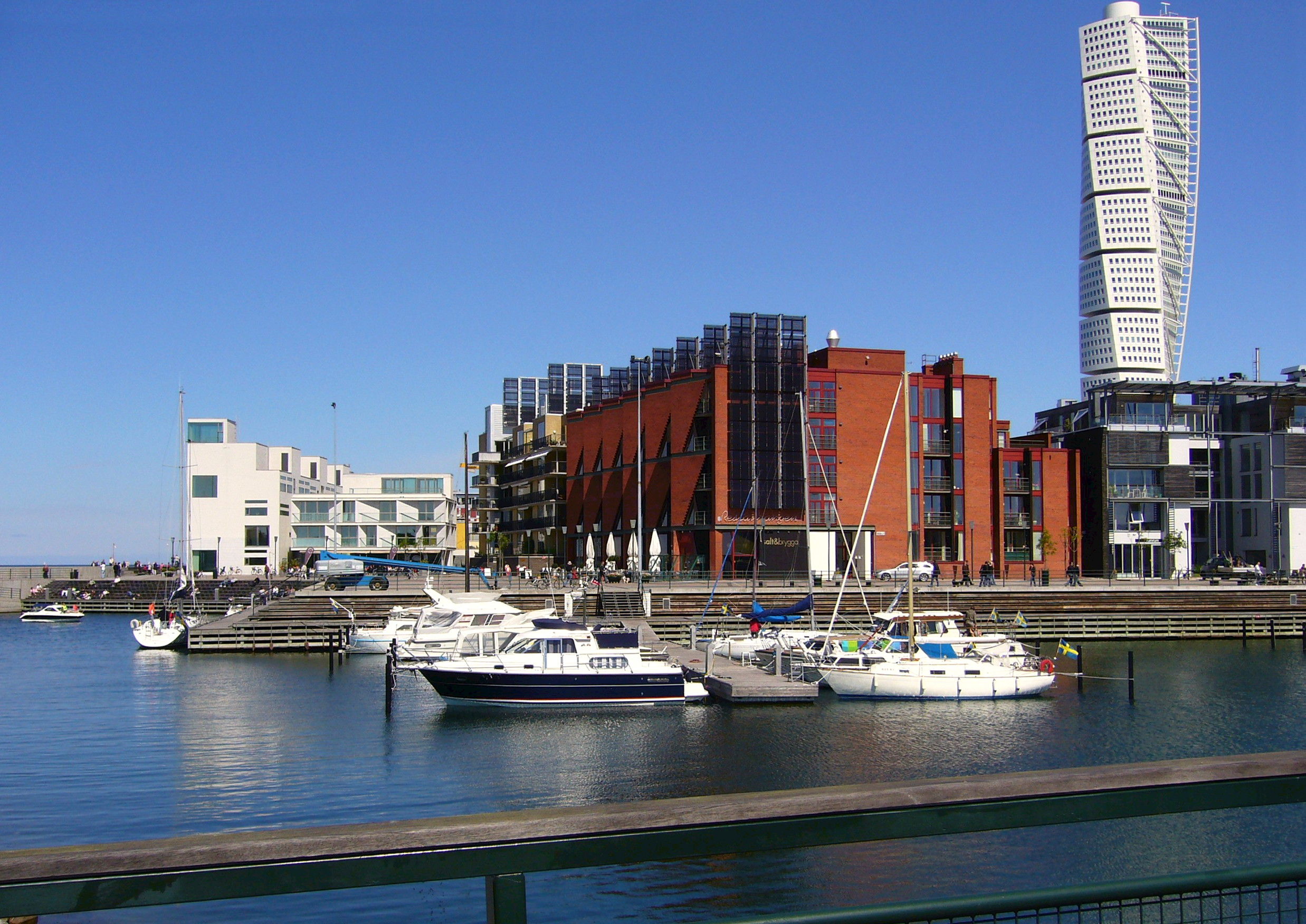 Picture shows the inner harbour (the marina) with the Turning Torso in the background